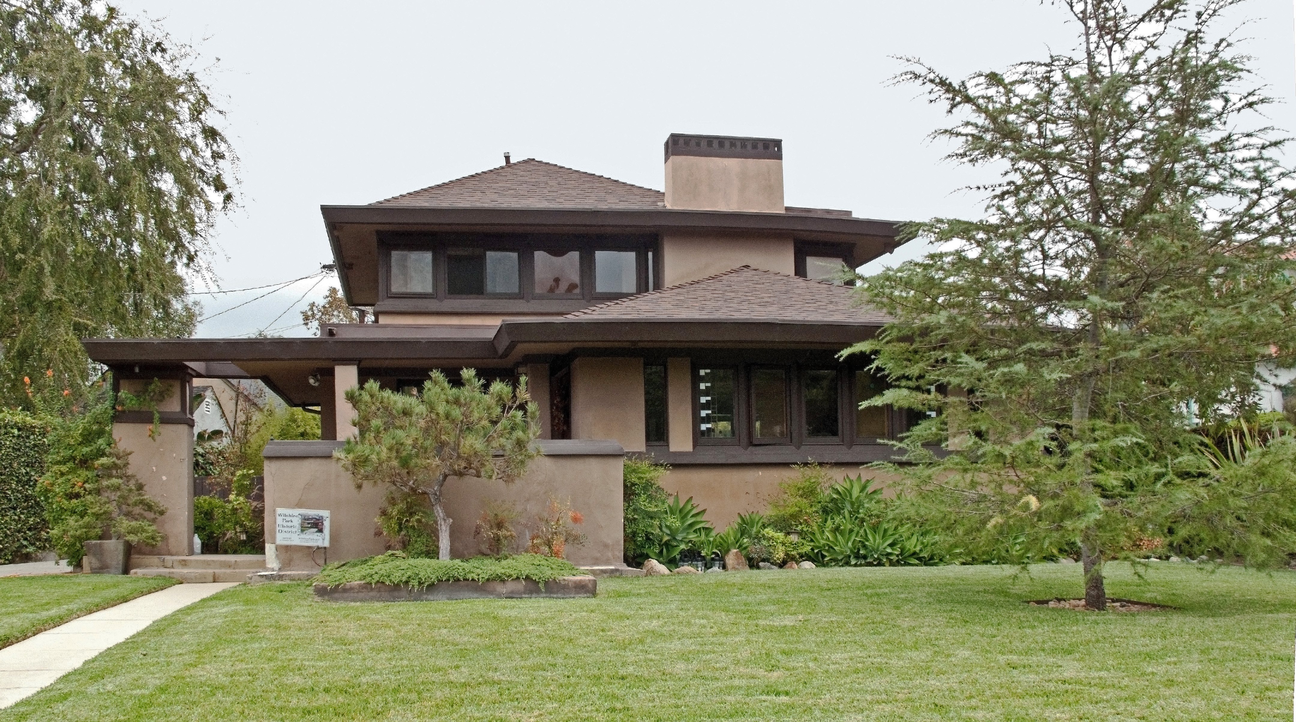 Weber House, 3923 W. 9th St., in the Wilshire Park neighborhood in the larger Mid-City neighborhood of Los Angeles. Los Angeles Historic-Cultural Monument #707.